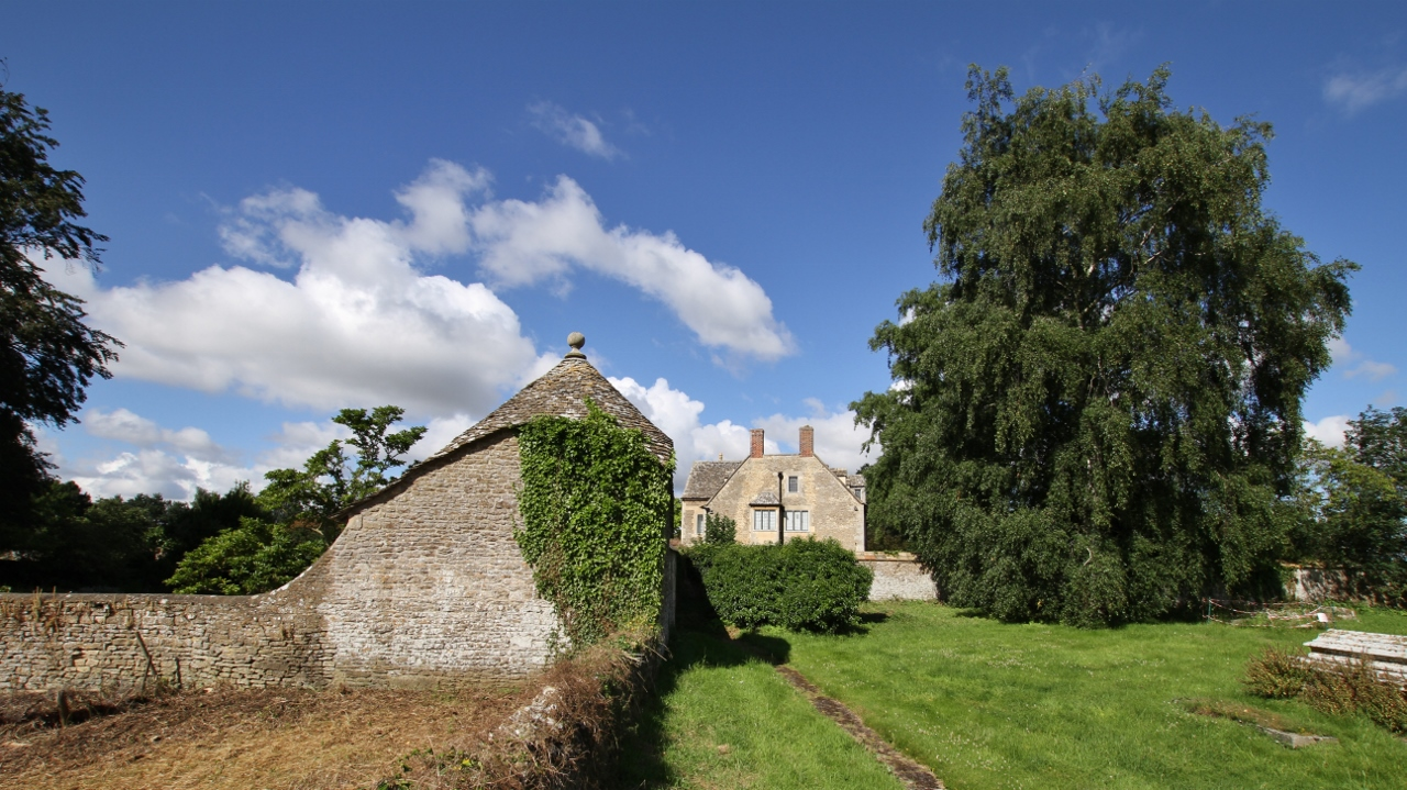 Gazebo of Longworth Manor, Oxfordshire (formerly Berkshire), seen from the east from St Mary's parish churchyard